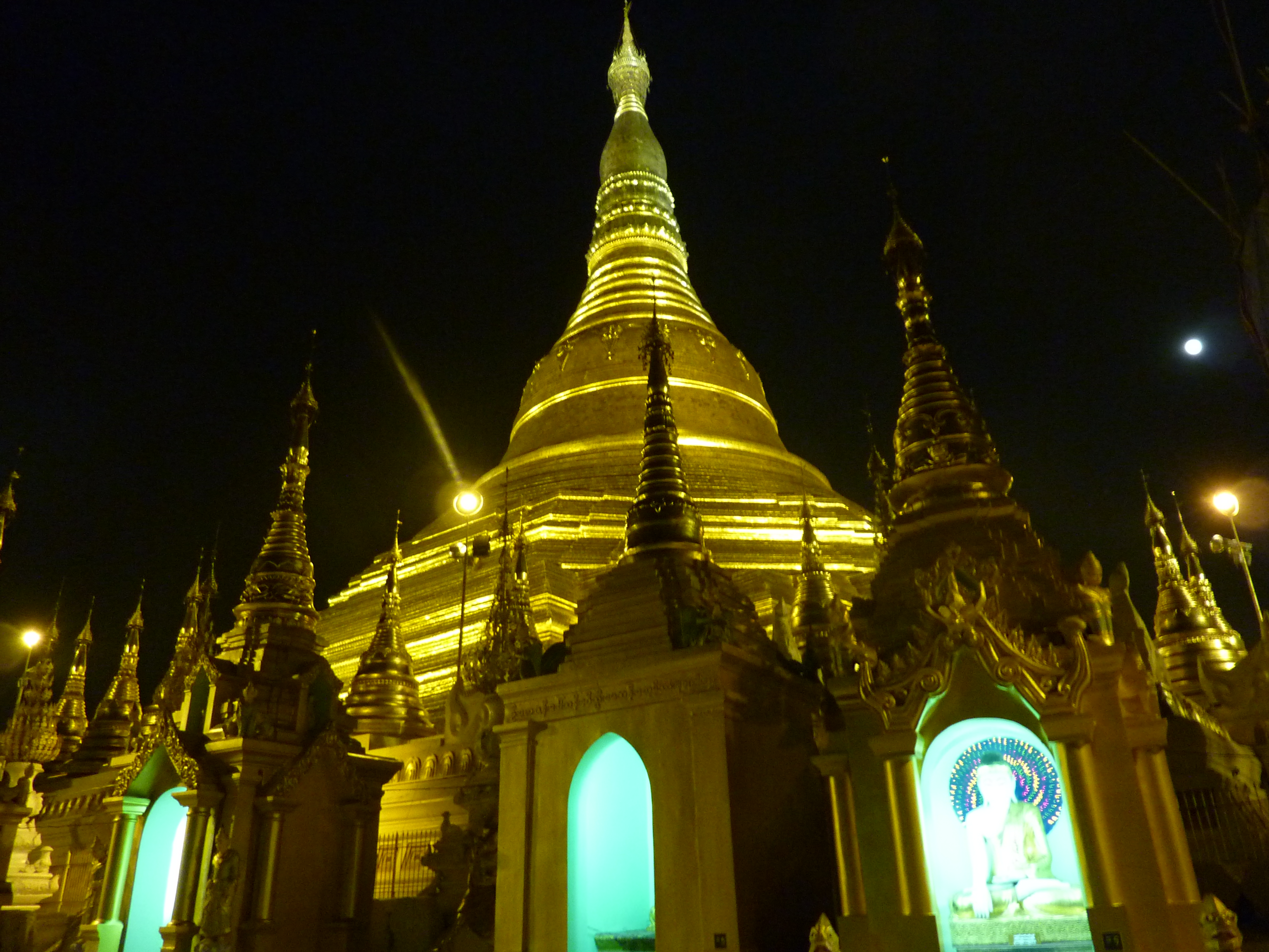 Shrines and Pagoda, Shwedagon, Yangon